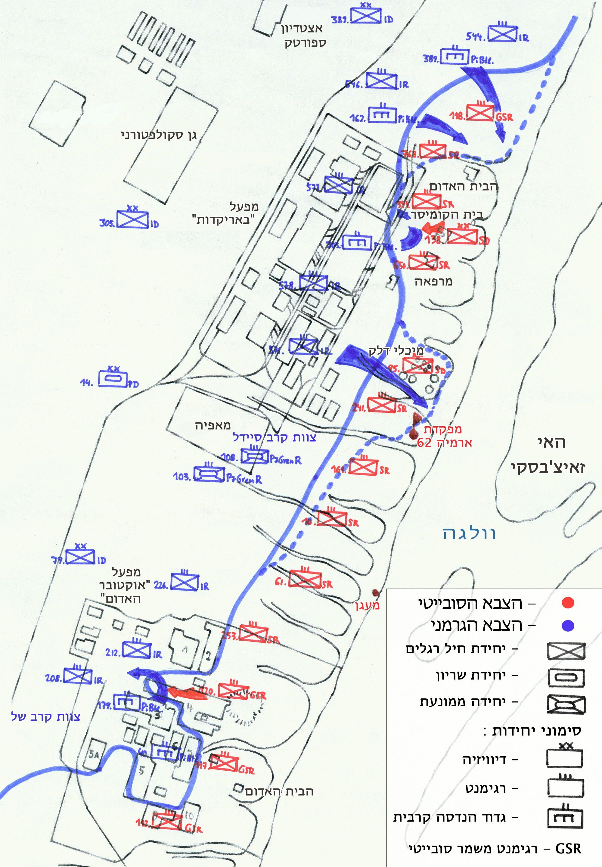 Operation Hubertus 11.-12.11.1942 he